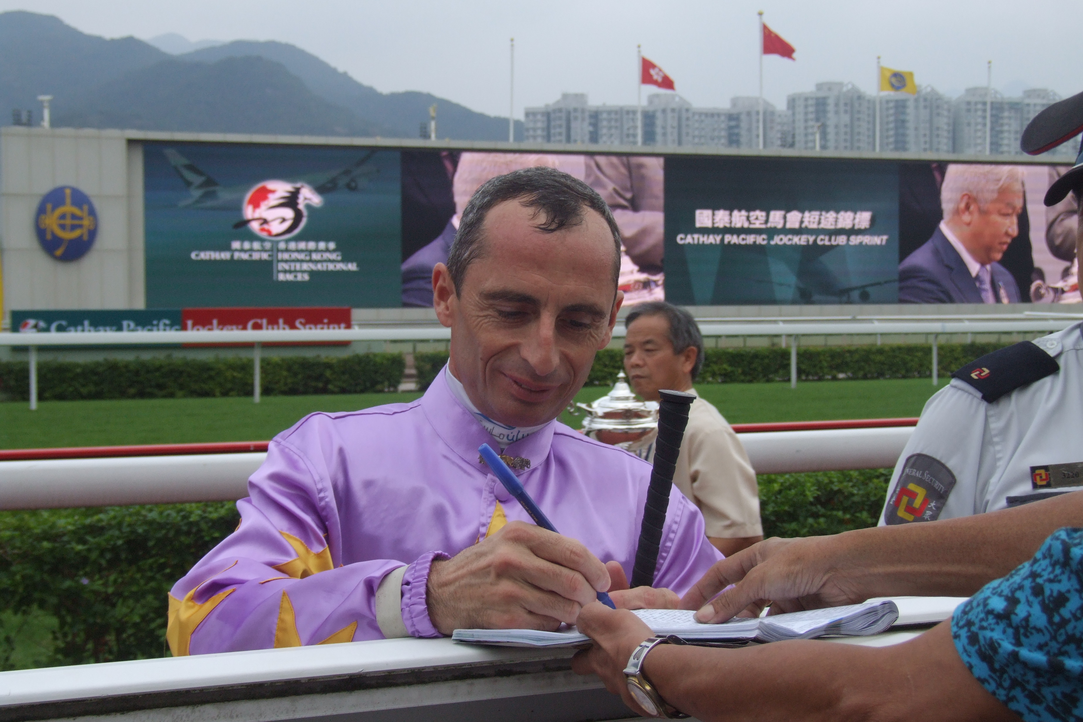 Gérald Mossé